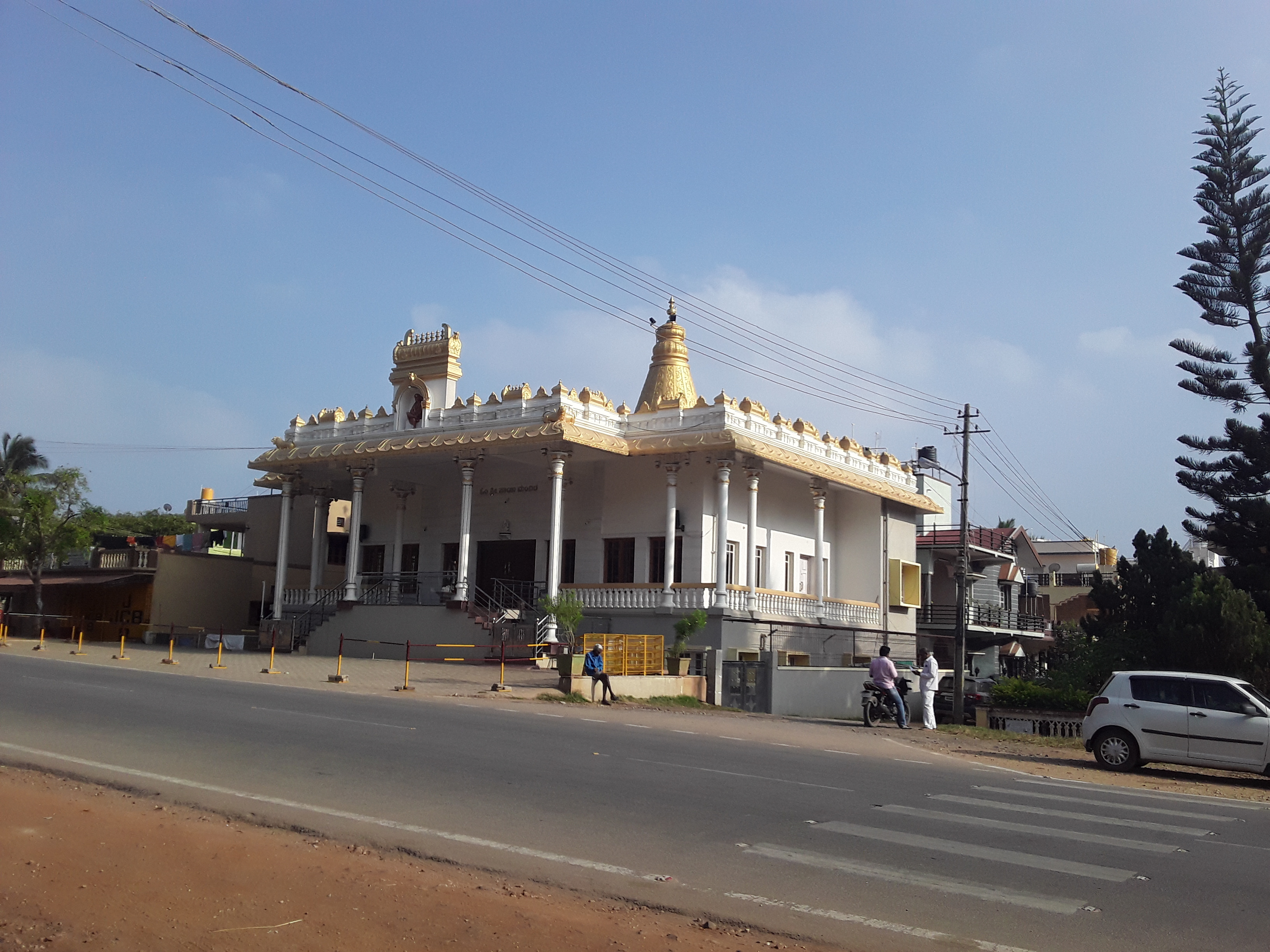 Karnataka State, India.